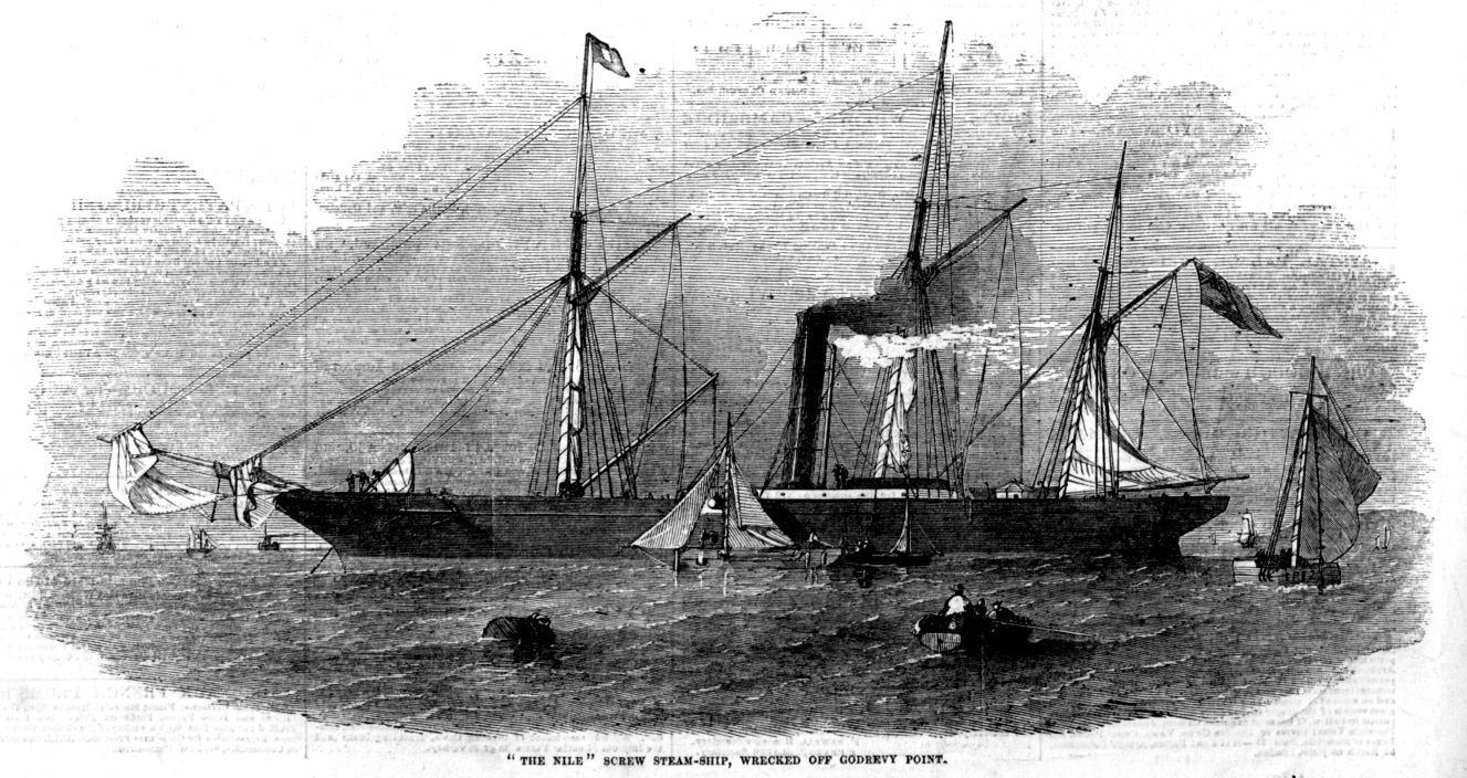 Engraving of the SS Nile (1850)